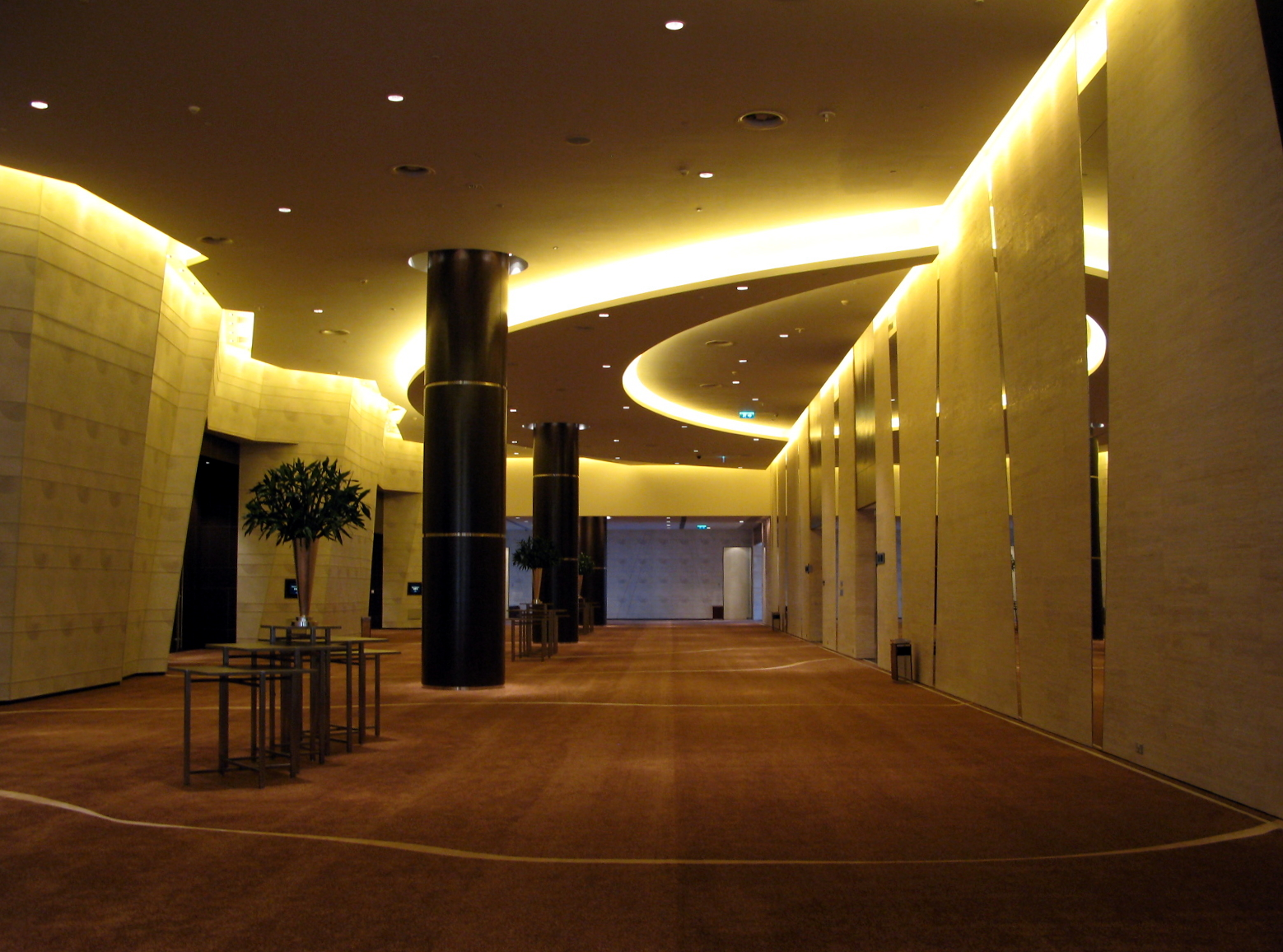 The City of Dreams Hyatt Macao Lobby